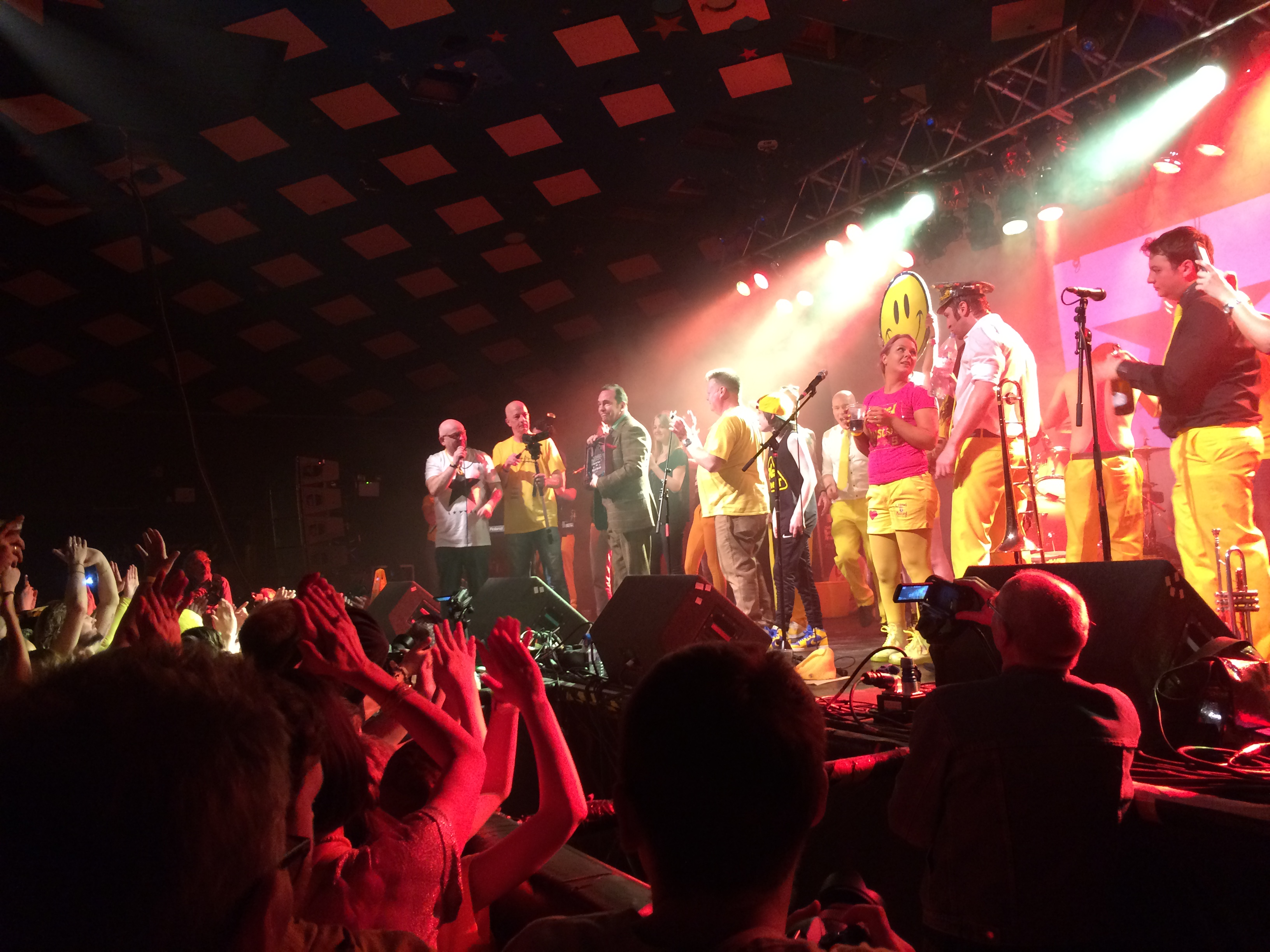 Saturday 5 March 2016 at Yellowlands gig at Glasgow Barrowlands, during Colonel Mustard & the Dijon 5's set, Gavin Mitchell accepted David Bowie's award for induction into the Barrowland Hall of Fame, to be passed to Bowie's management at a later date.